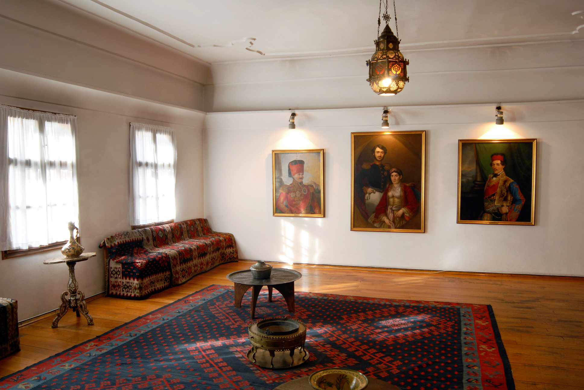 Унутрашњост конака